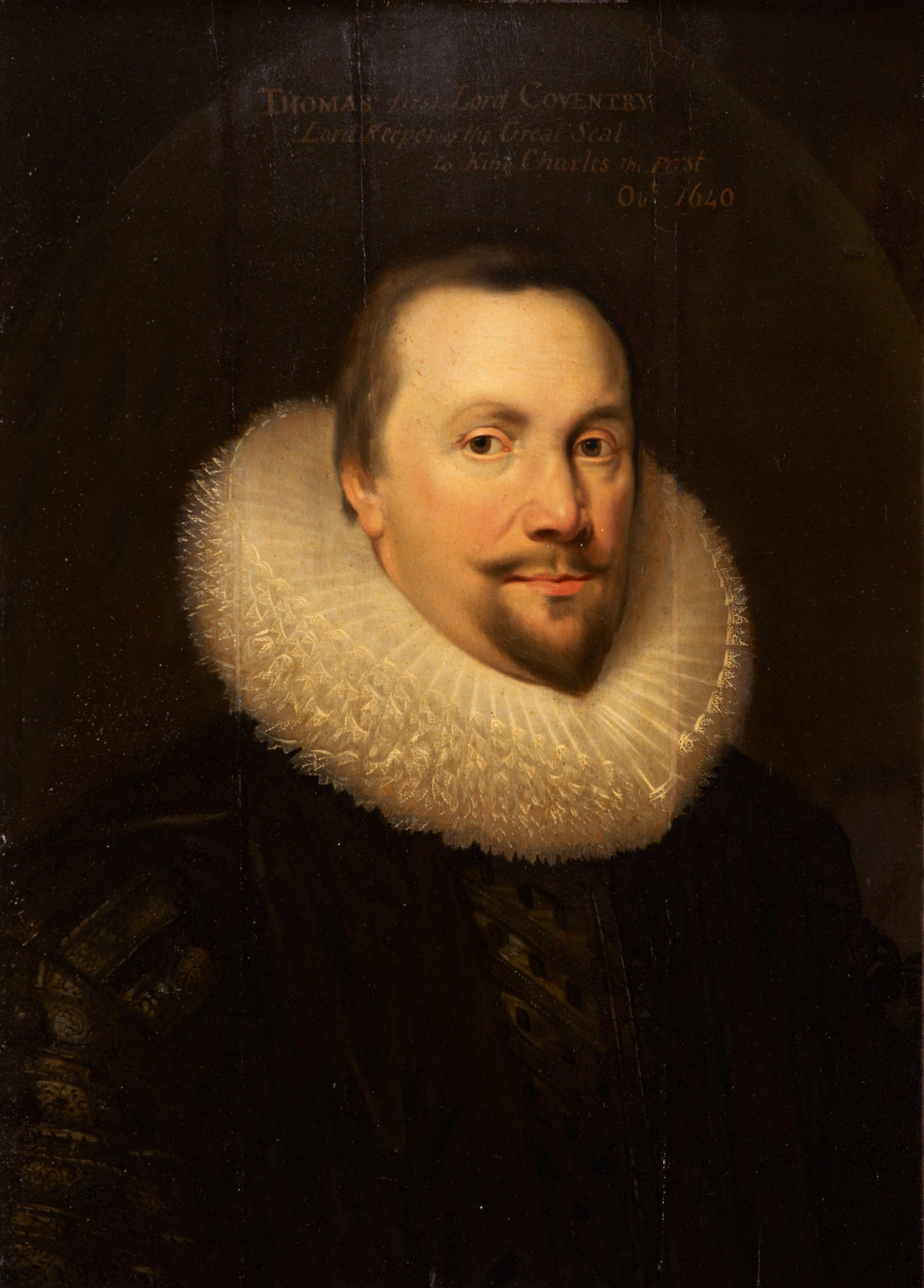 Portrait of Thomas Coventry, 1st Baron Coventry (1578-1640)